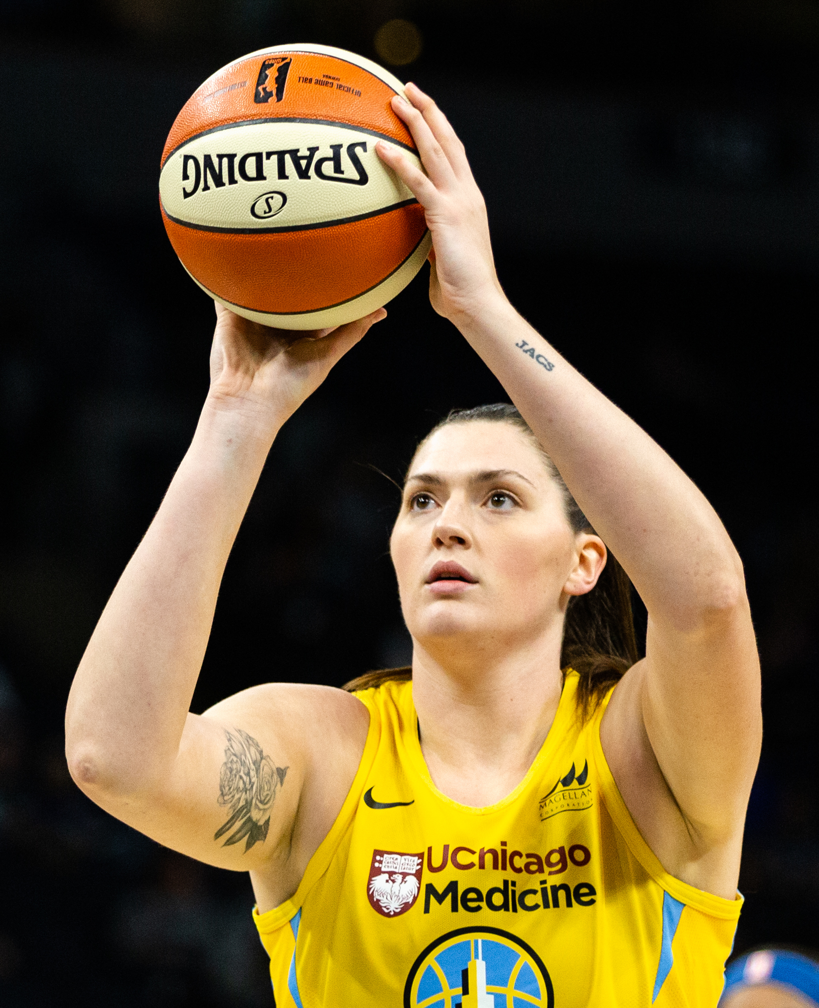 Chicago Sky player Stefanie Dolson shoots a foul shot